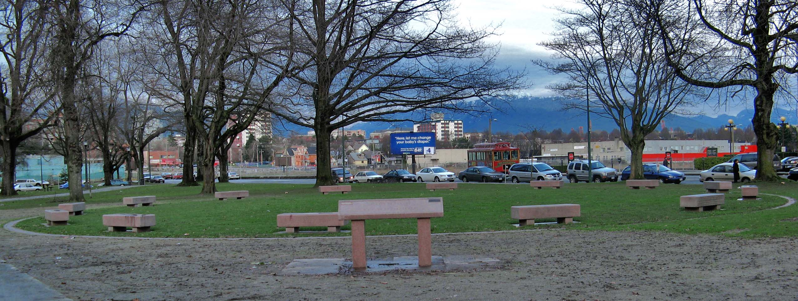 Marker of Change memorial in Thornton Park, Vancouver, Canada Taken by me, 31 December 2006